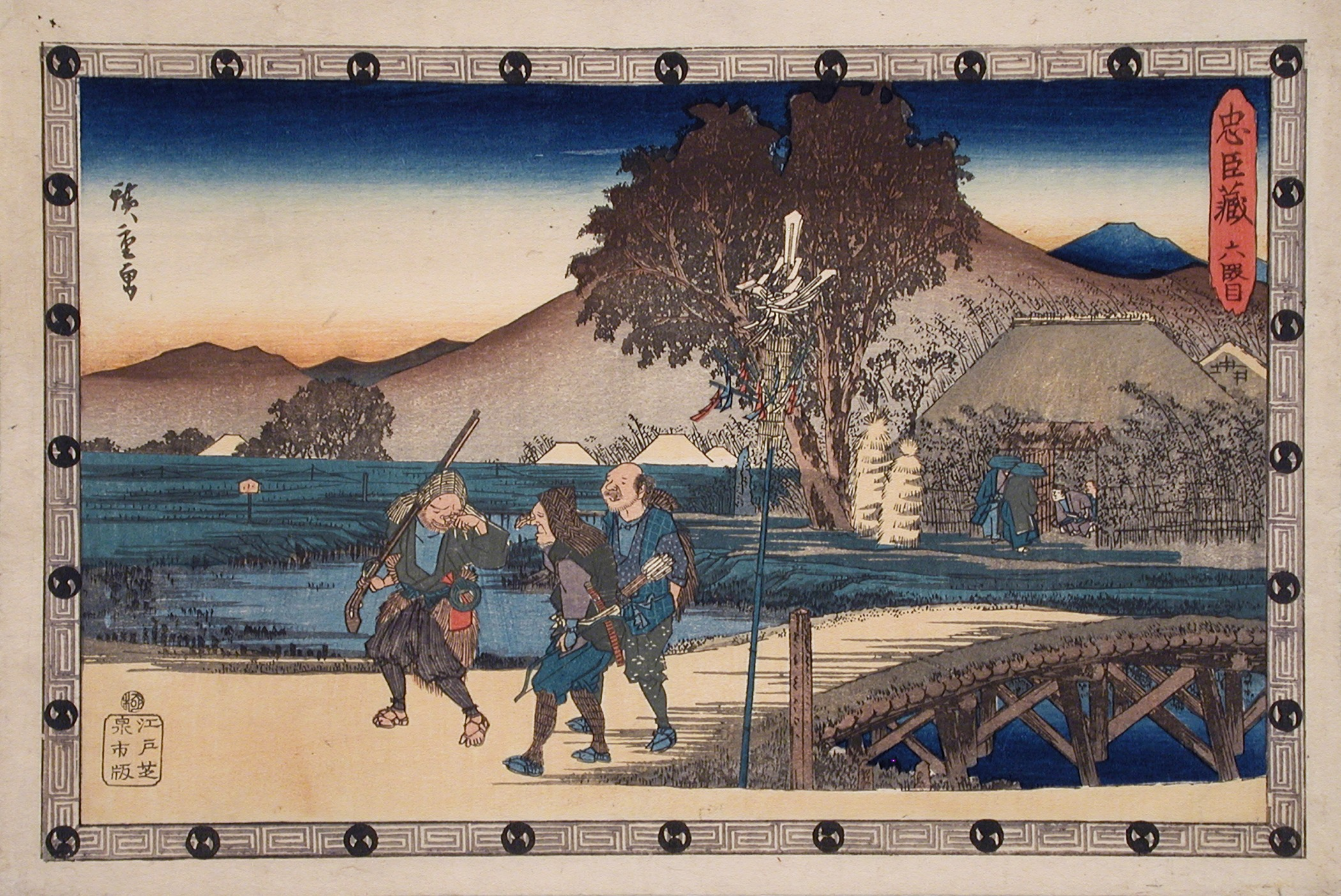 Japan, circa 1835-1839 Series: The Storehouse of Loyal Retainers Prints; woodcuts Color woodblock print Image: 9 1/16 x 14 in. (23.0 x 35.6 cm); Sheet: 10 3/16 x 14 7/8 in. (25.9 x 37.8 cm) Gift of Dr. Harvey Eagleson (M.66.35.51) Japanese Art